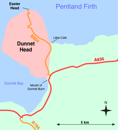 Small sketch map of Dunnet Head in northern Scotland. Produced by me (User:Pmcm), using OmniGraffle.